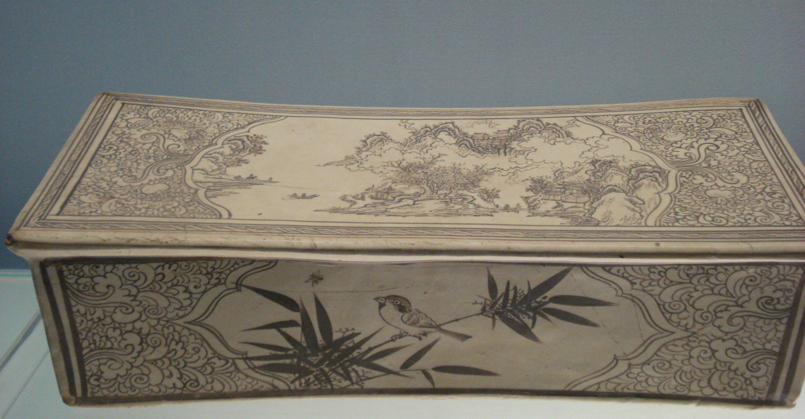 porcelain pillow in Shanghai Museum (ceramics and porcelain collection).